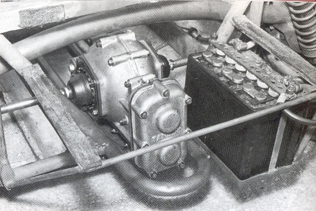 Quick change differential Bandini formula junior, picture from Bandini book